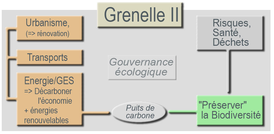 6 major items of the second part of the french law "grenelle II" (2010, after the Grenelle I and the "Grenelle de l'environnement", an open multi-party debate in France (2007) that brings together representatives of national and local government and organizations (industry, labour, professional associations, non-governmental organizations) on an equal footing, with goal of unifying a position on a specific theme. The aim of the "Grenelle Environment Round Table" (as it might be called in English),)